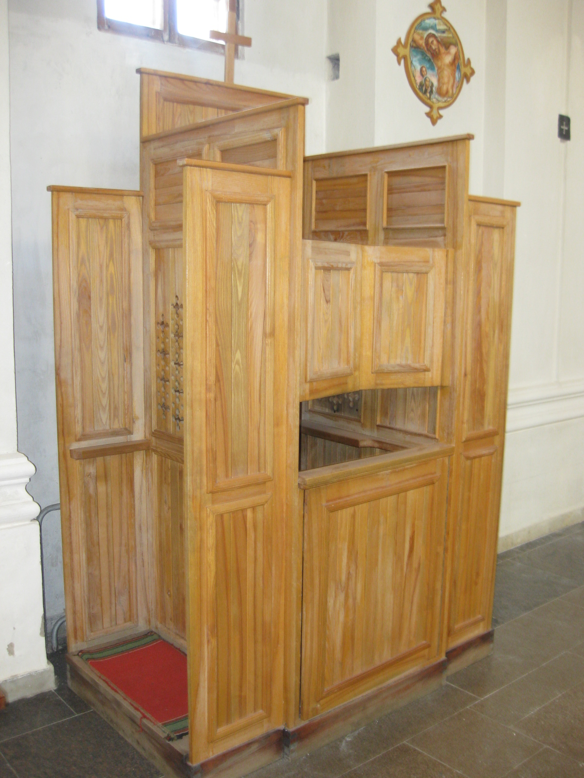 Church of Saint Barbara in Vitebsk city. Confessional view Беларуская (тарашкевіца): Віцебск, касьцёл Сьвятой Барбары